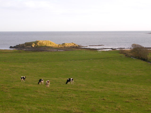 Island Muller by Kilchousland.